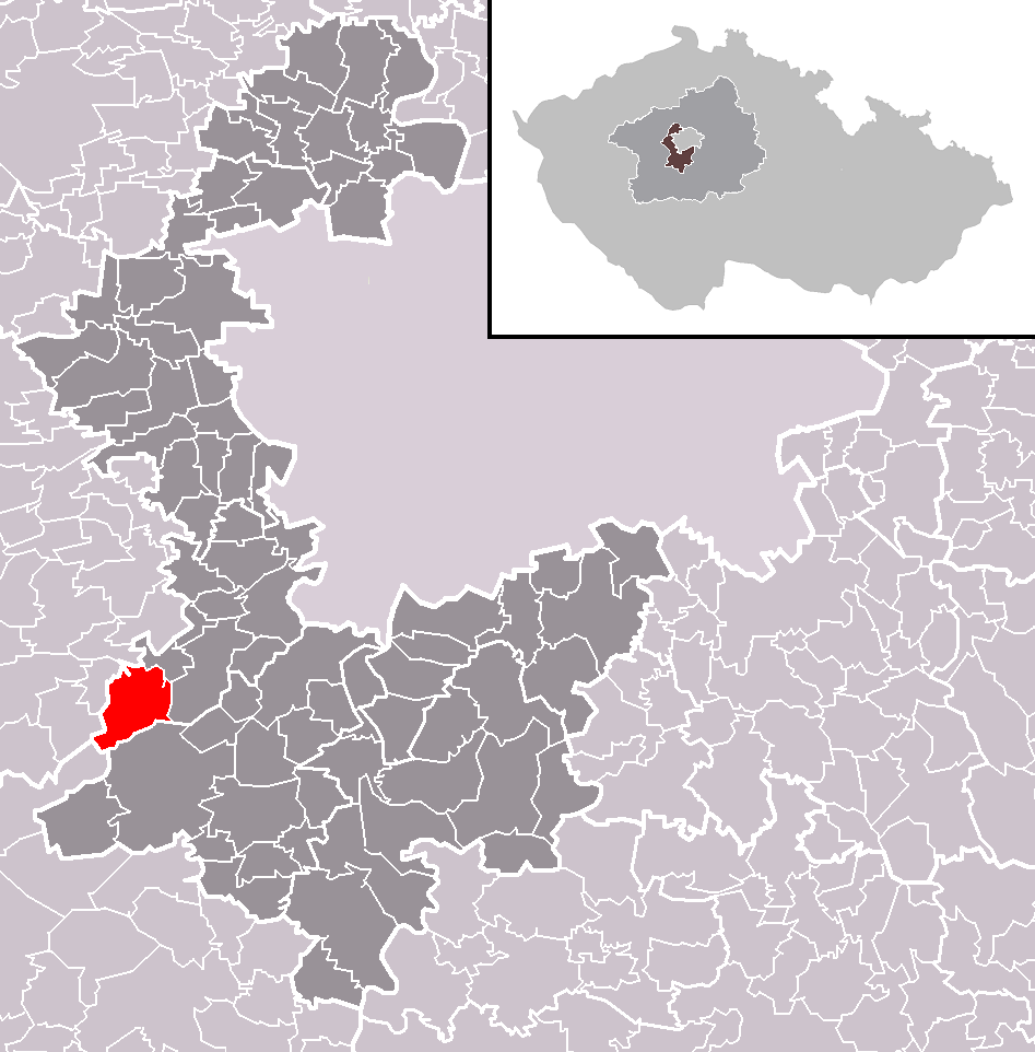 Location of Řevnice town within Prague-West District and administrative area of Černošice as a Municipality with Extended Competence.